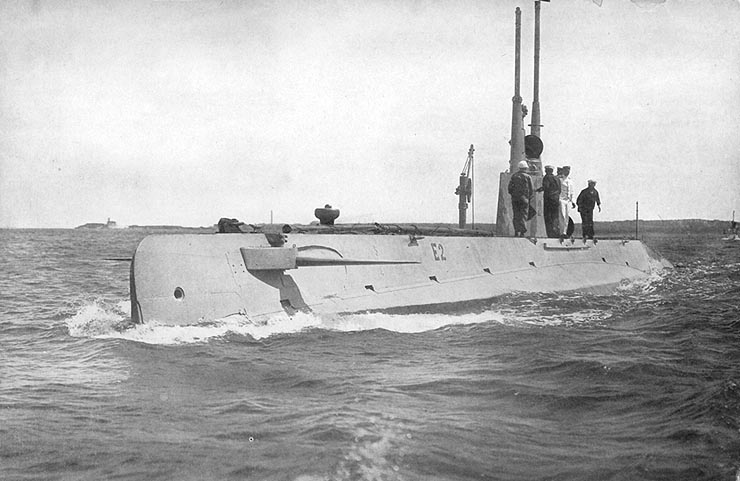 USS E-2 (Submarine # 25) Fine screen halftone reproduction of a photograph of the submarine underway prior to World War I. Original caption: “Photo # NH 99185 USS E-2 underway” — removed caption